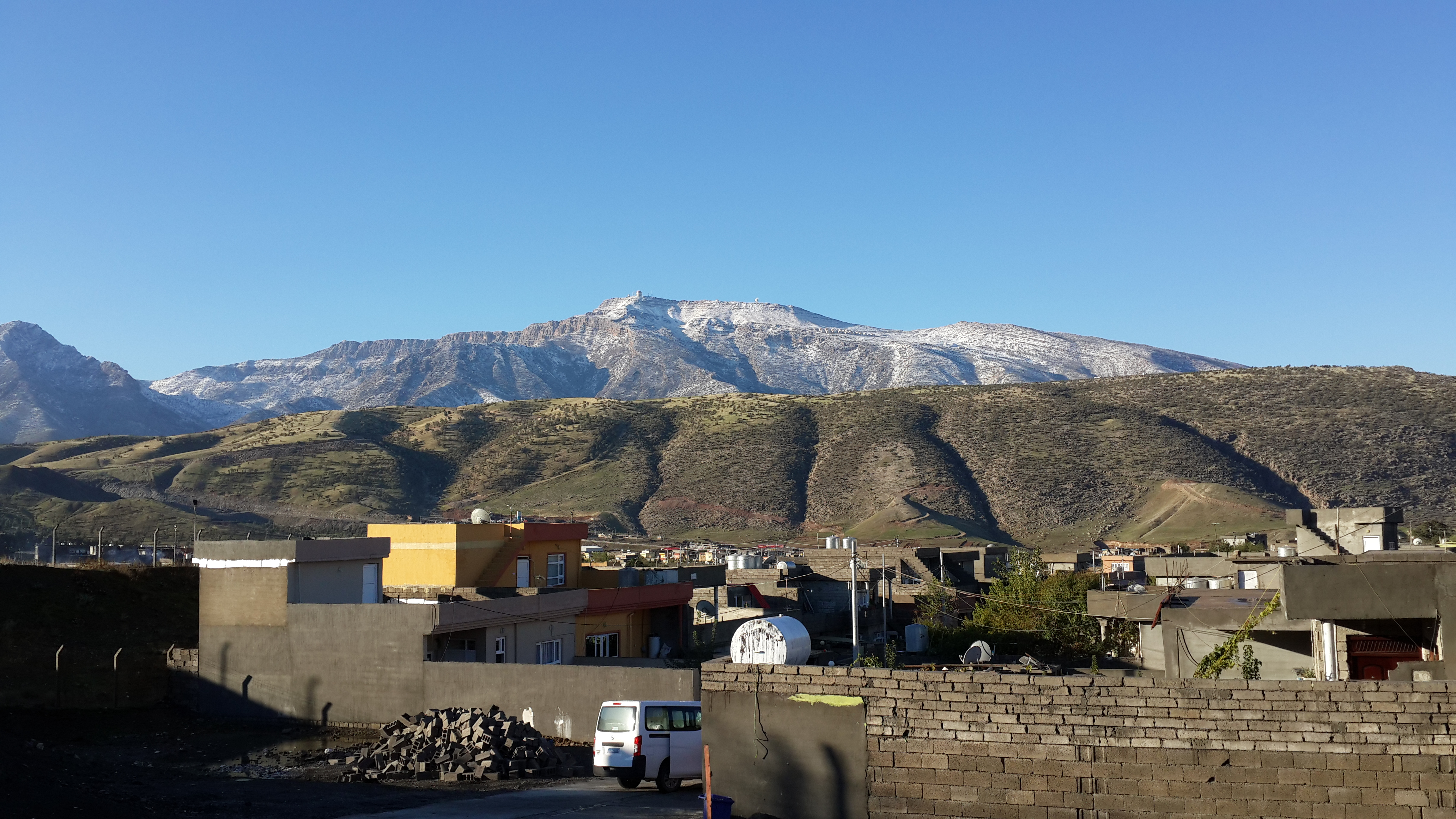 Korek Mt In Erbil, South of Kurdistan